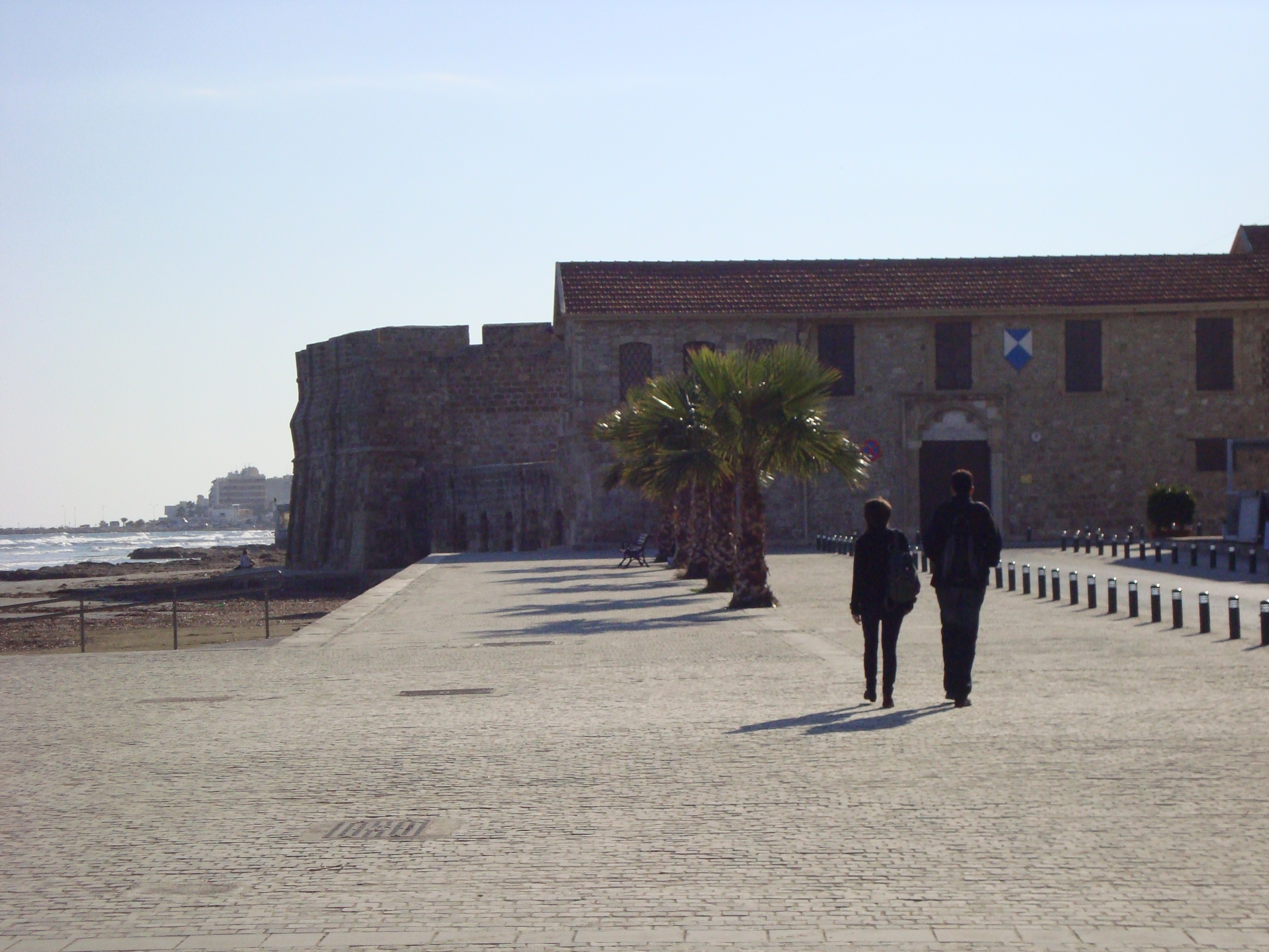 Historic Larnaca Castle in 2011